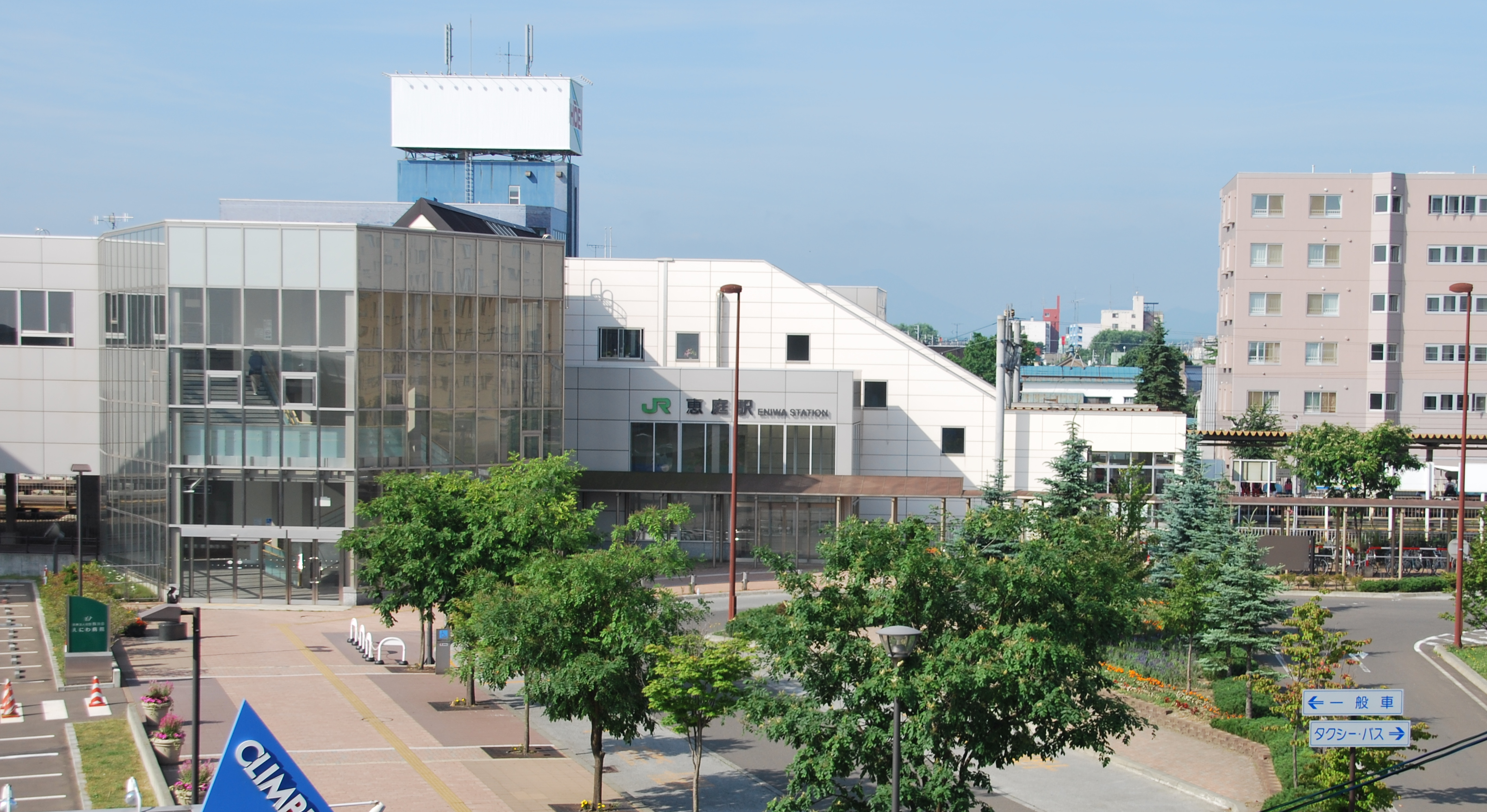 An east view of Eniwa Station, Hokkaido